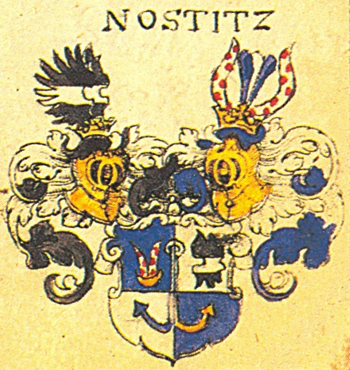 Coat of arms of Nostitz family from Siebmachers Wappenbuch